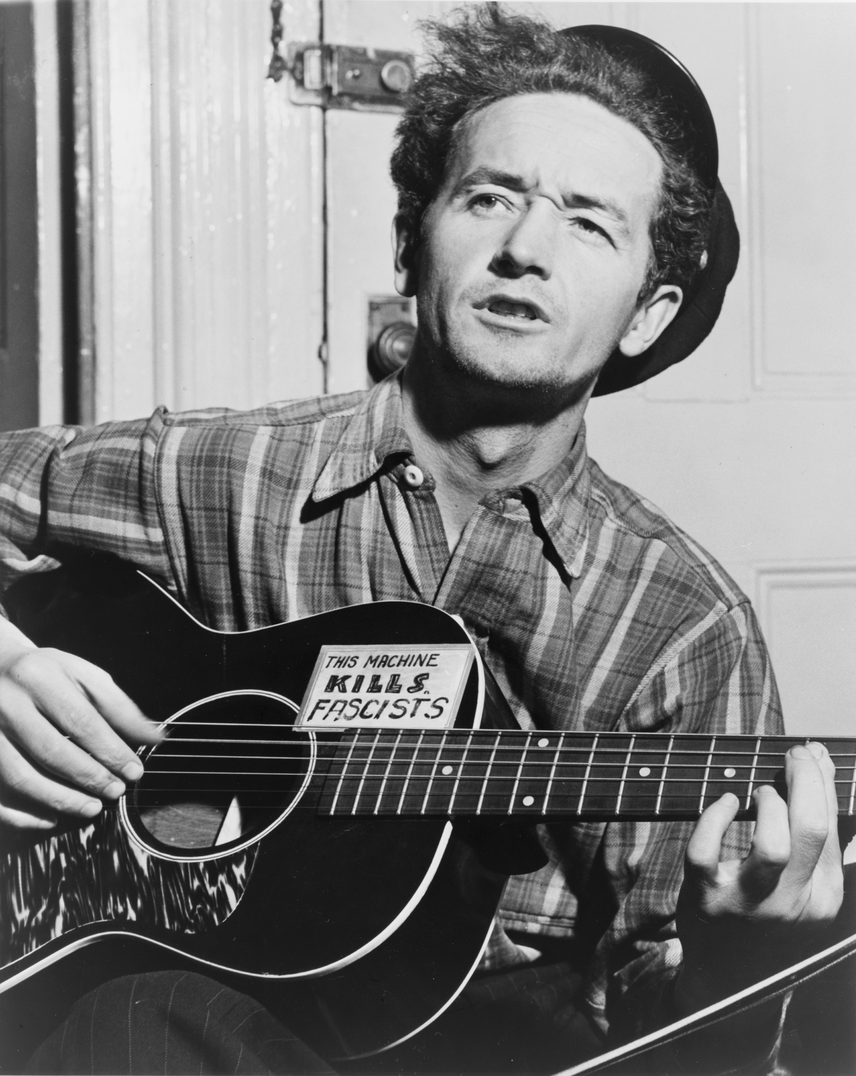 Woody Guthrie, half-length portrait, facing slightly left, holding guitar / World Telegram photo by Al Aumuller. Gibson L-0 (with bound back) — see more pictures of L-0, L-00, L-1, and L-2